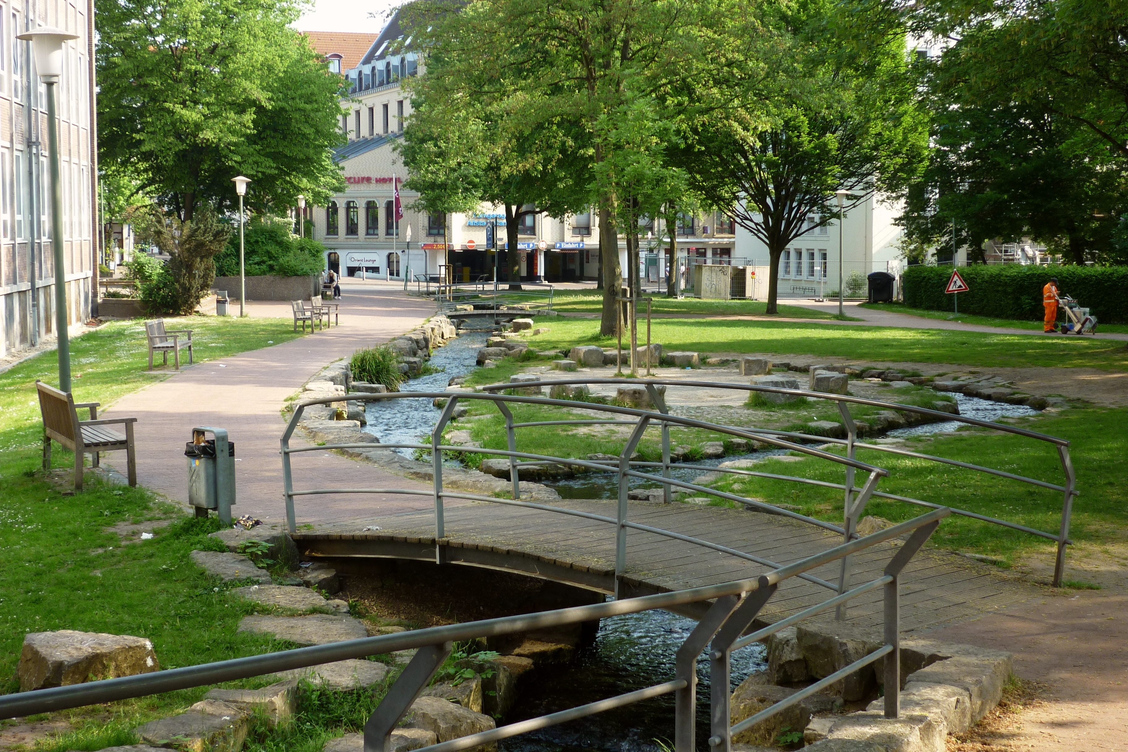 Bielefeld (Germany). Lutter Brook, excavated in 2004